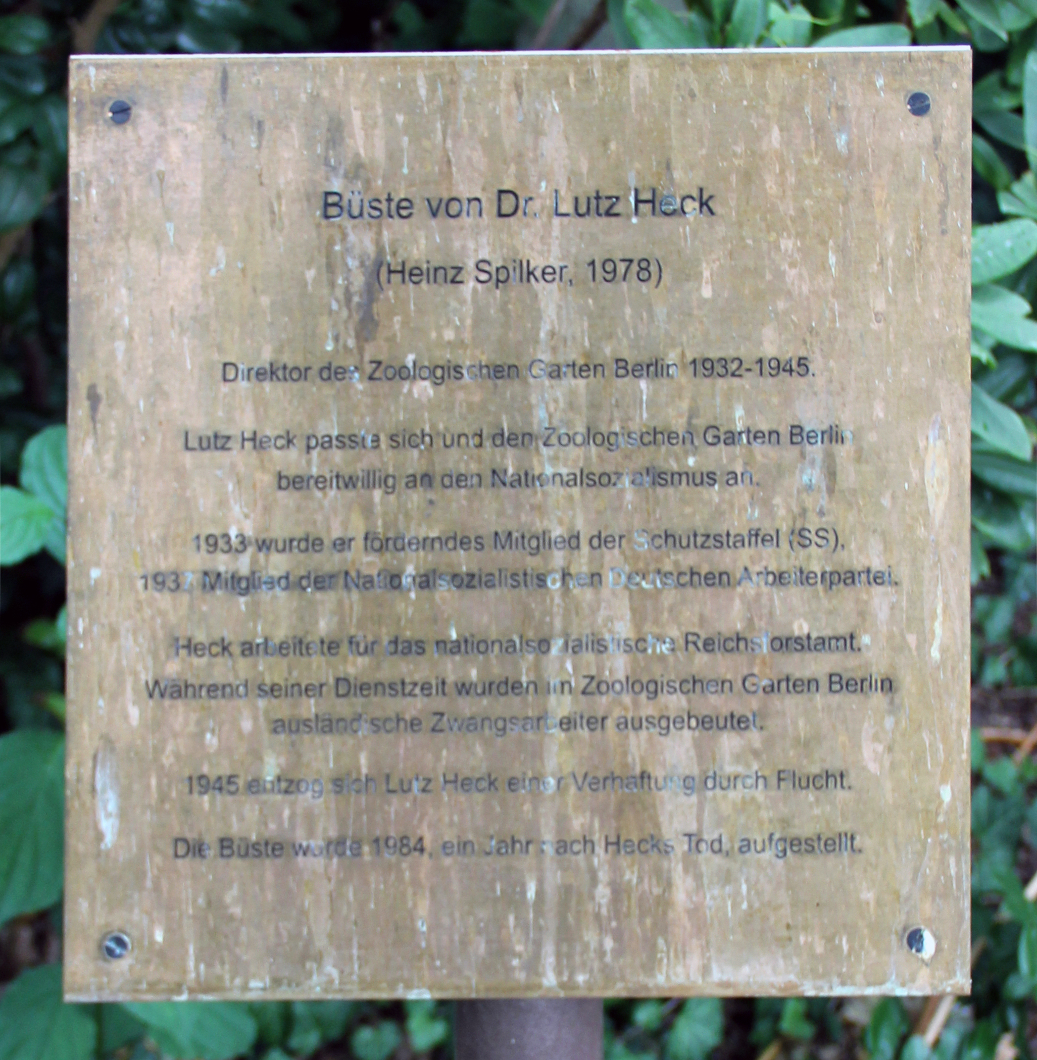 Memorial plaque, Lutz Heck, Hardenbergplatz 8, Berlin-Tiergarten, Deutschland